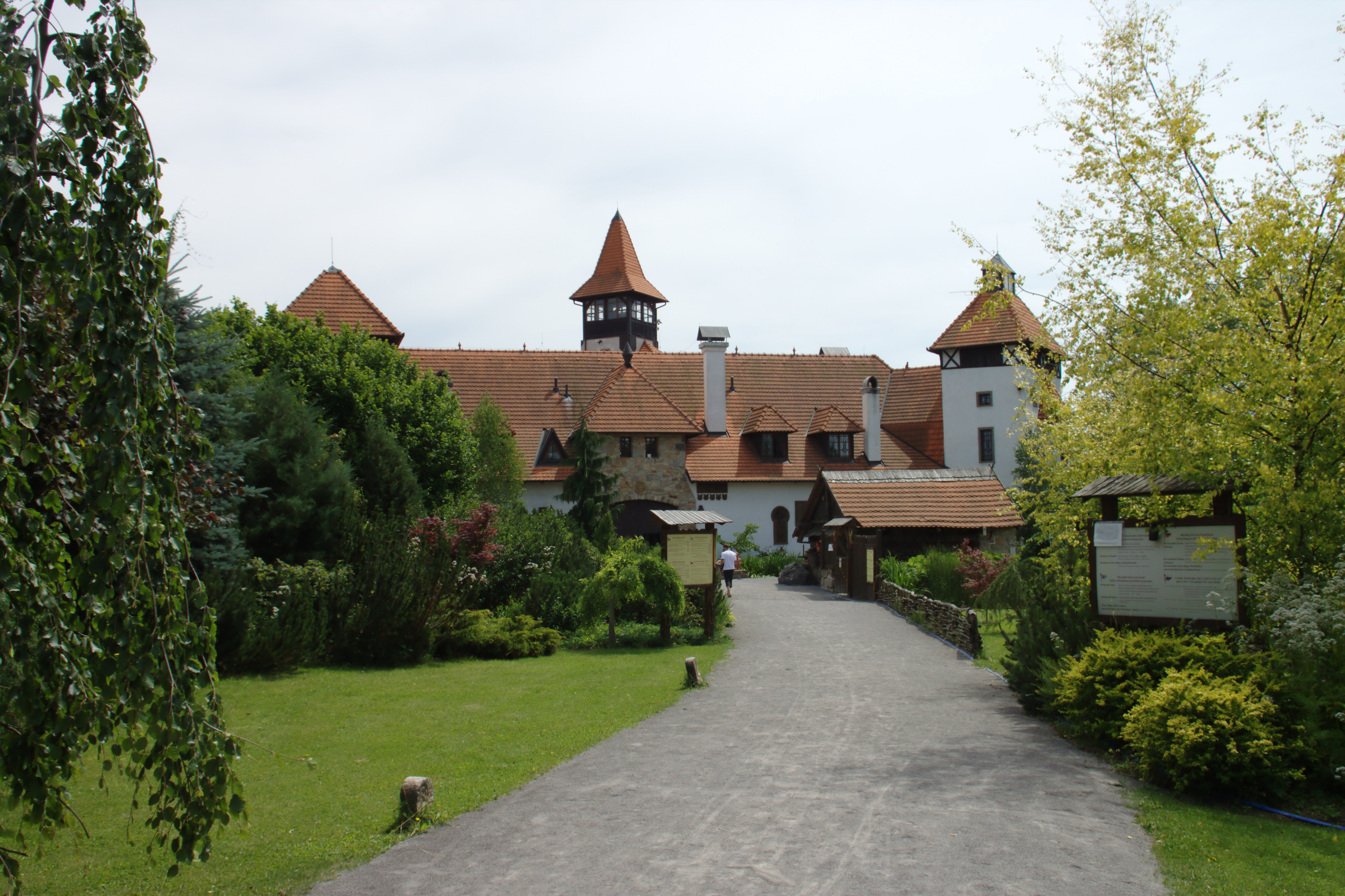 Červený Újezd Castle, Central Bohemian Region, CZ Project: Fotíme Česko